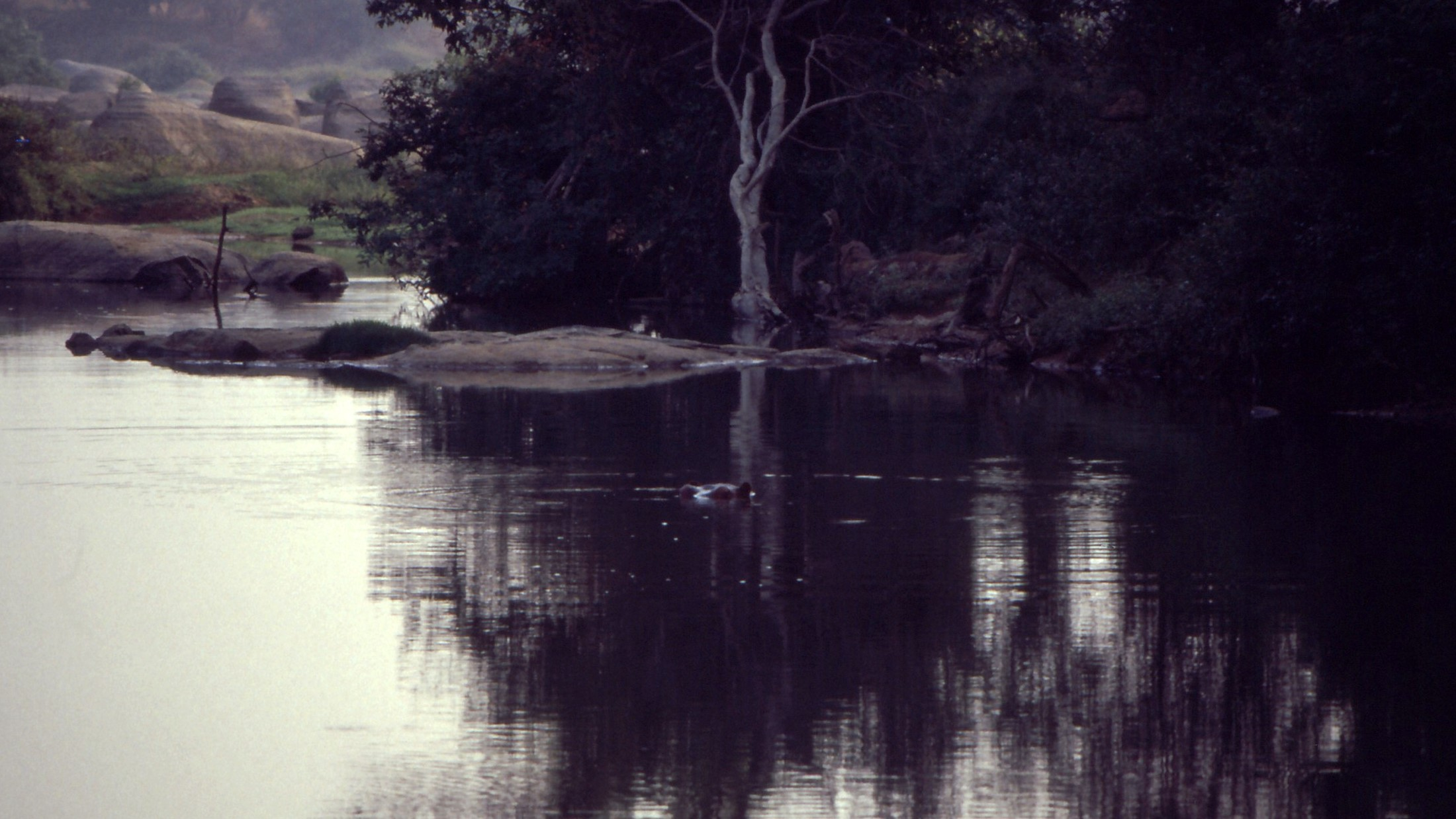 Hippopotamus at the Comoé National Park, Ivory Coast, 1990